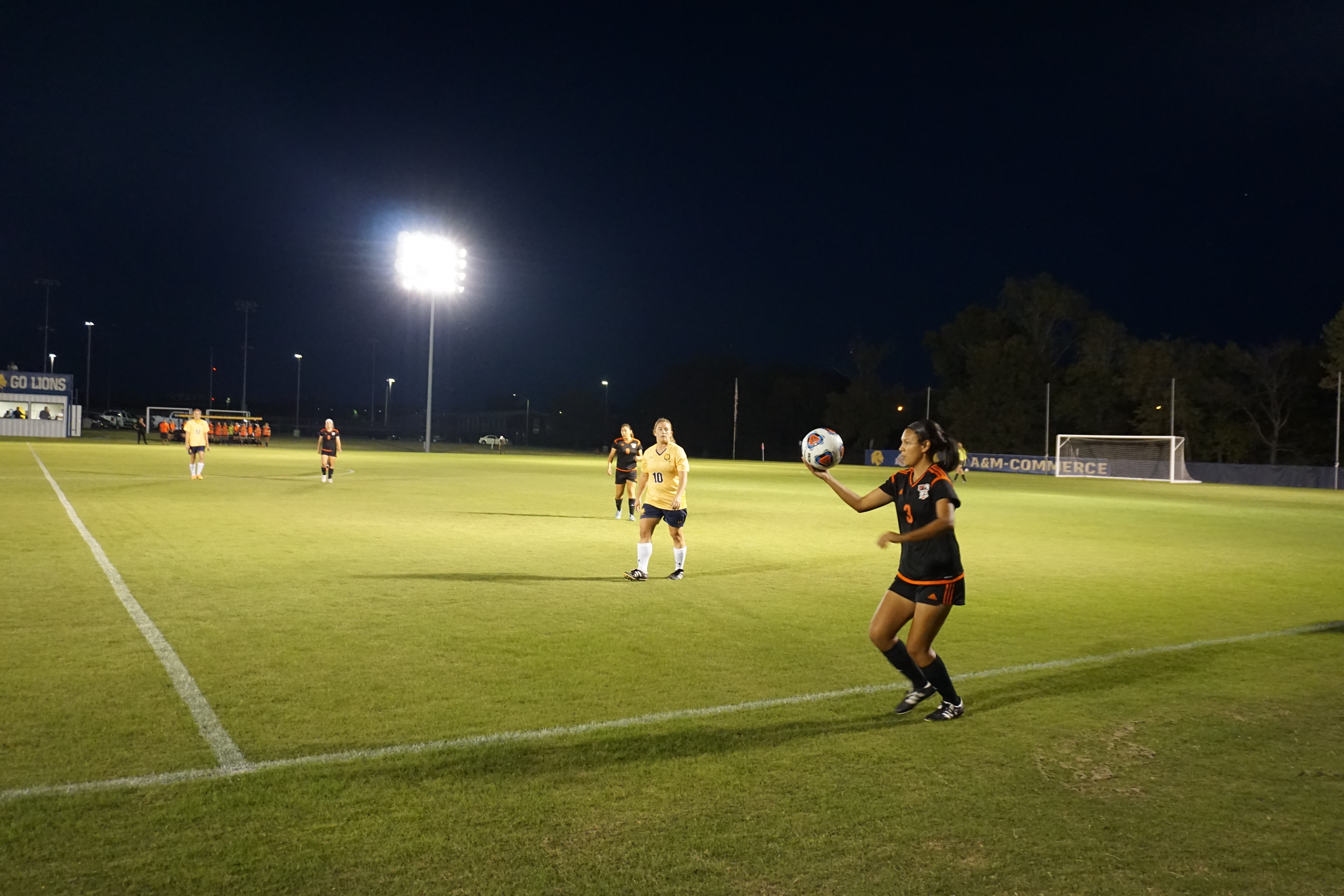 In-game action during the Texas–Permian Basin Falcons vs. Texas A&M–Commerce Lions women's soccer game at Lion Soccer Field in Commerce, Texas (United States). A&M–Commerce won 7–1.